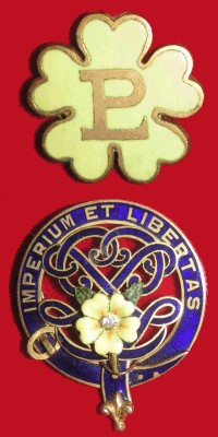 Primrose League badges based on personal photo